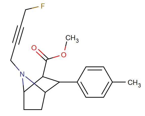 Phenyltropane aka PR04.MZ, often radiolabeled e.g. [1] or [2]